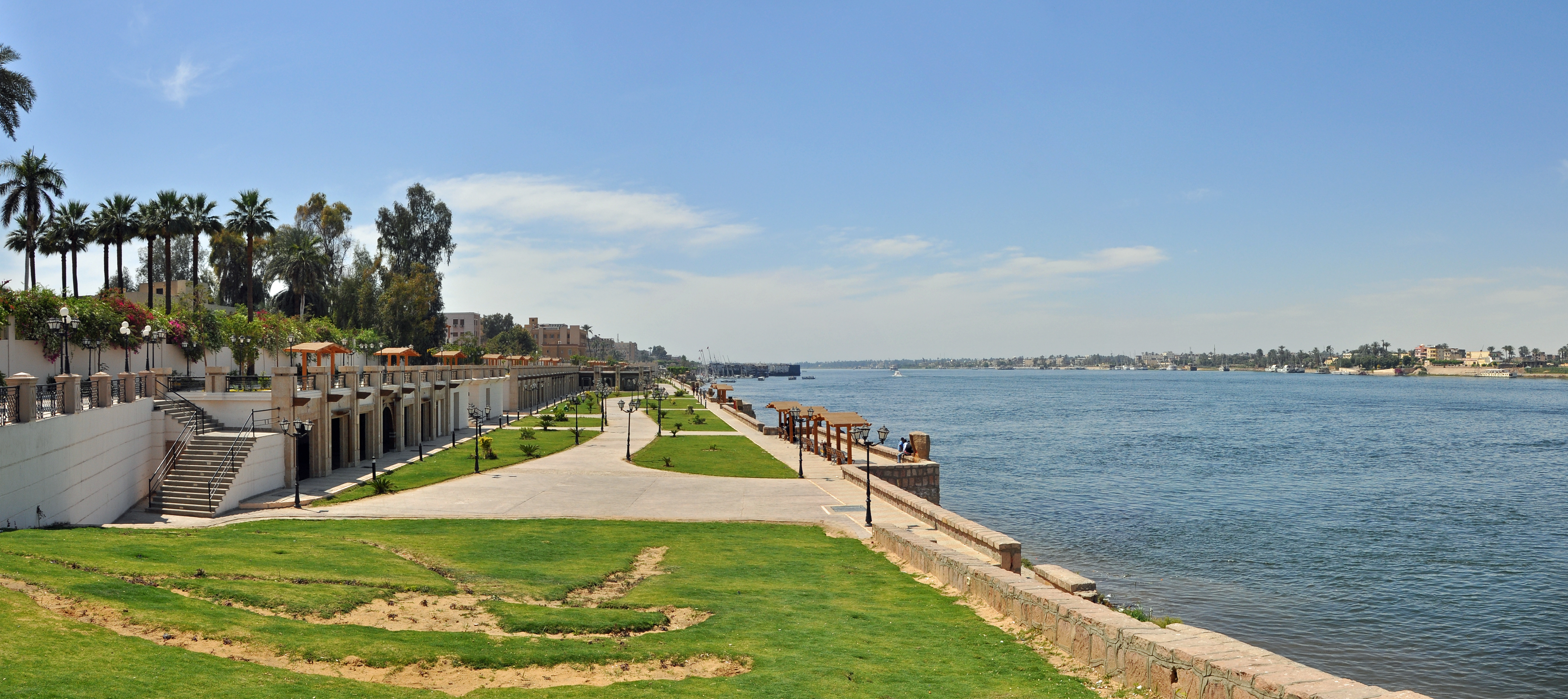 Luxor (Egypt): the New Corniche